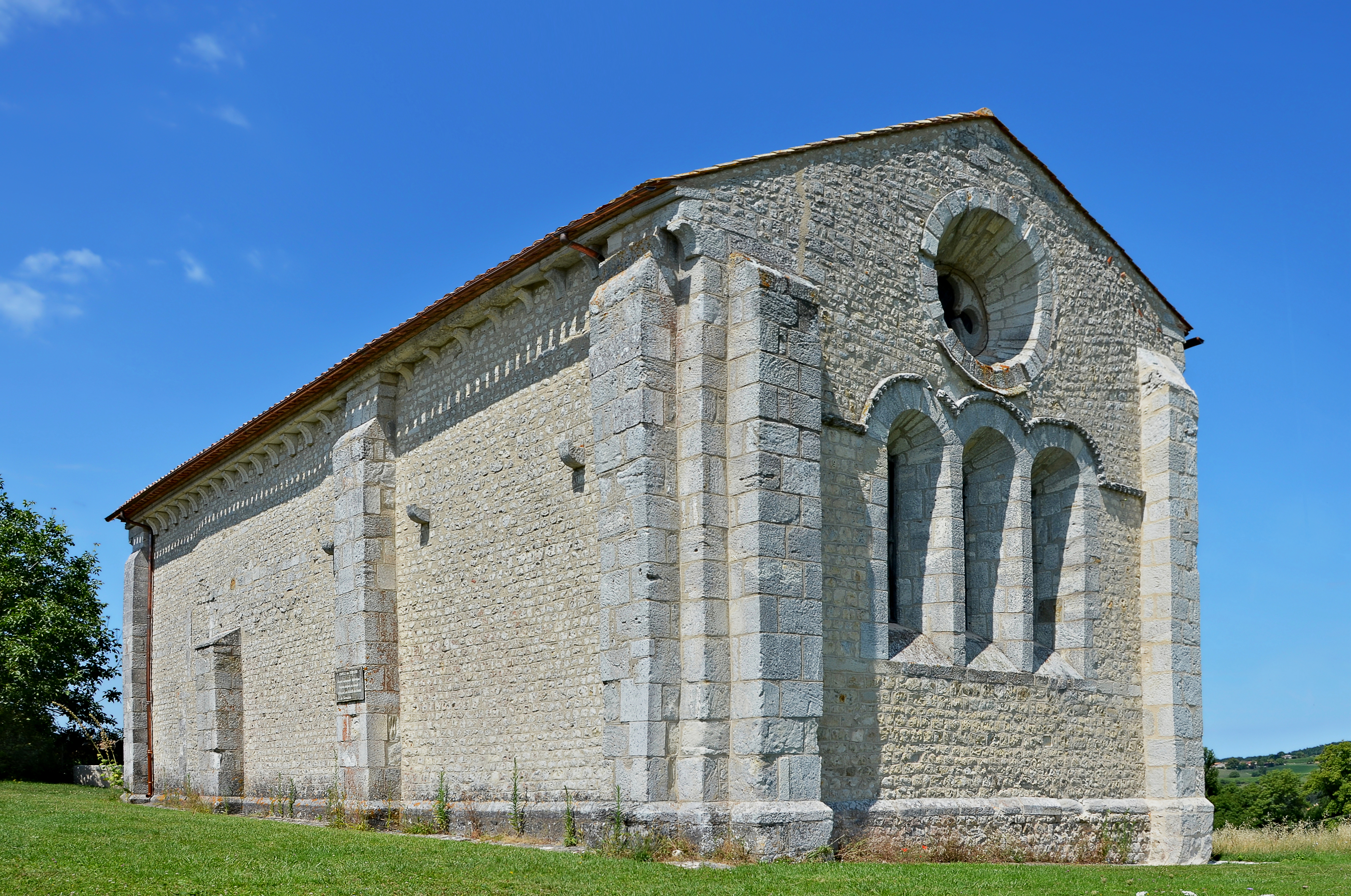 Templar chapel (12th century), Cressac-Saint-Genis, Charente, France, Charente, France. .